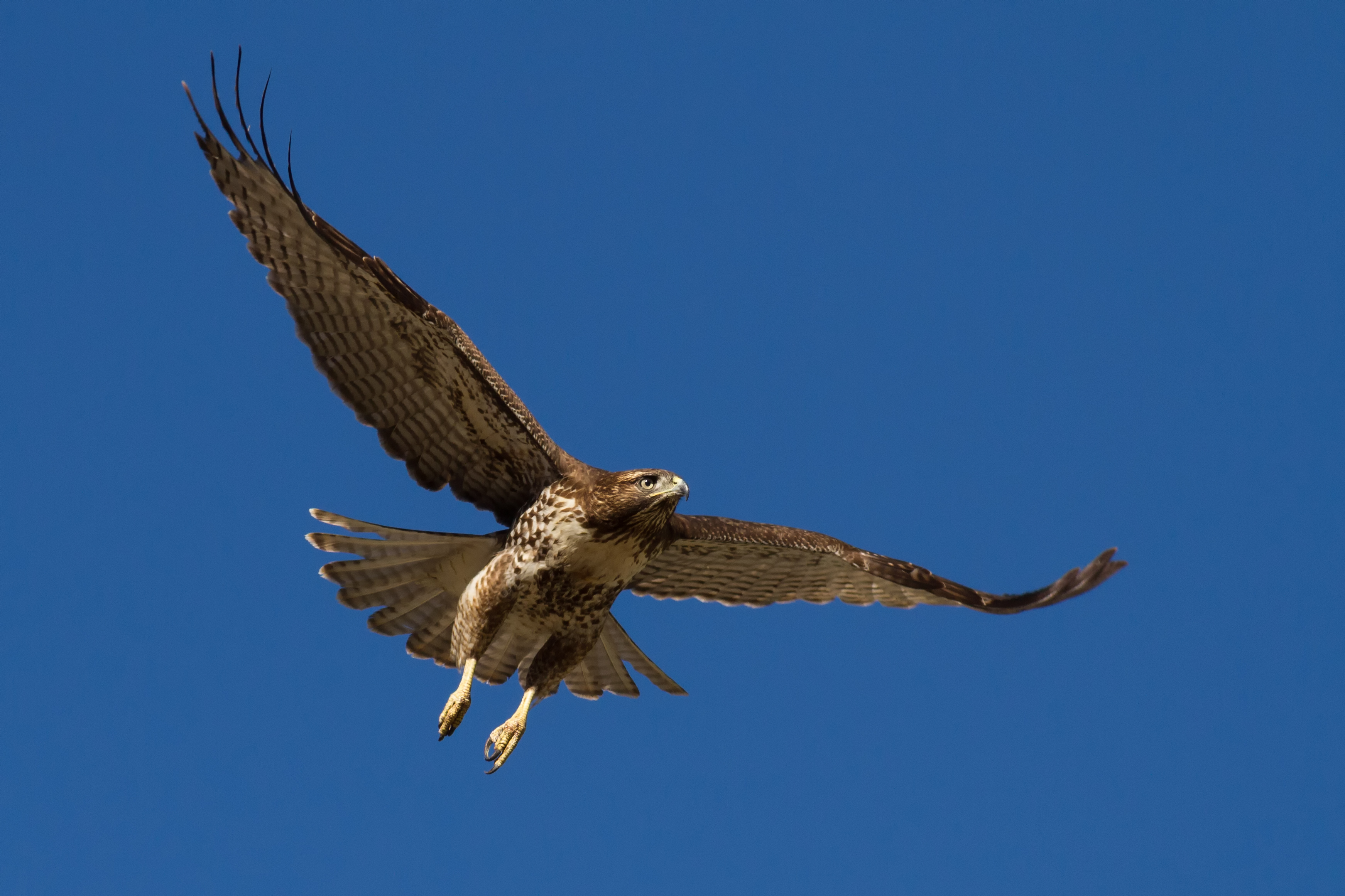 Juvenile Red-tailed hawk (Buteo jamaicensis calurus), as seen from Thundermountain Trail, Squaw Valley, California.